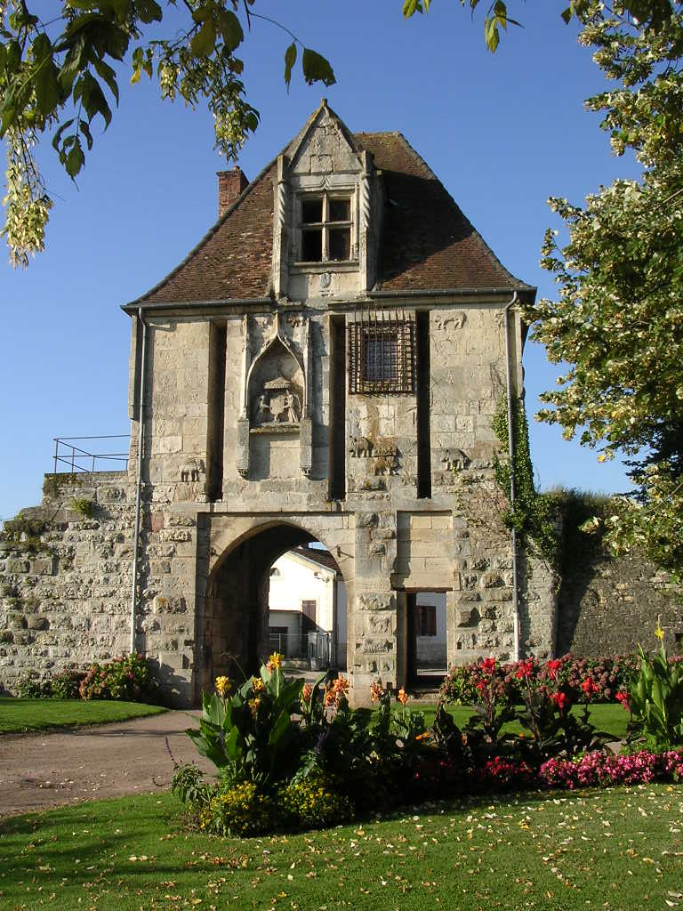 Auxonne, La porte de Comté, Burgundy, FRANCE